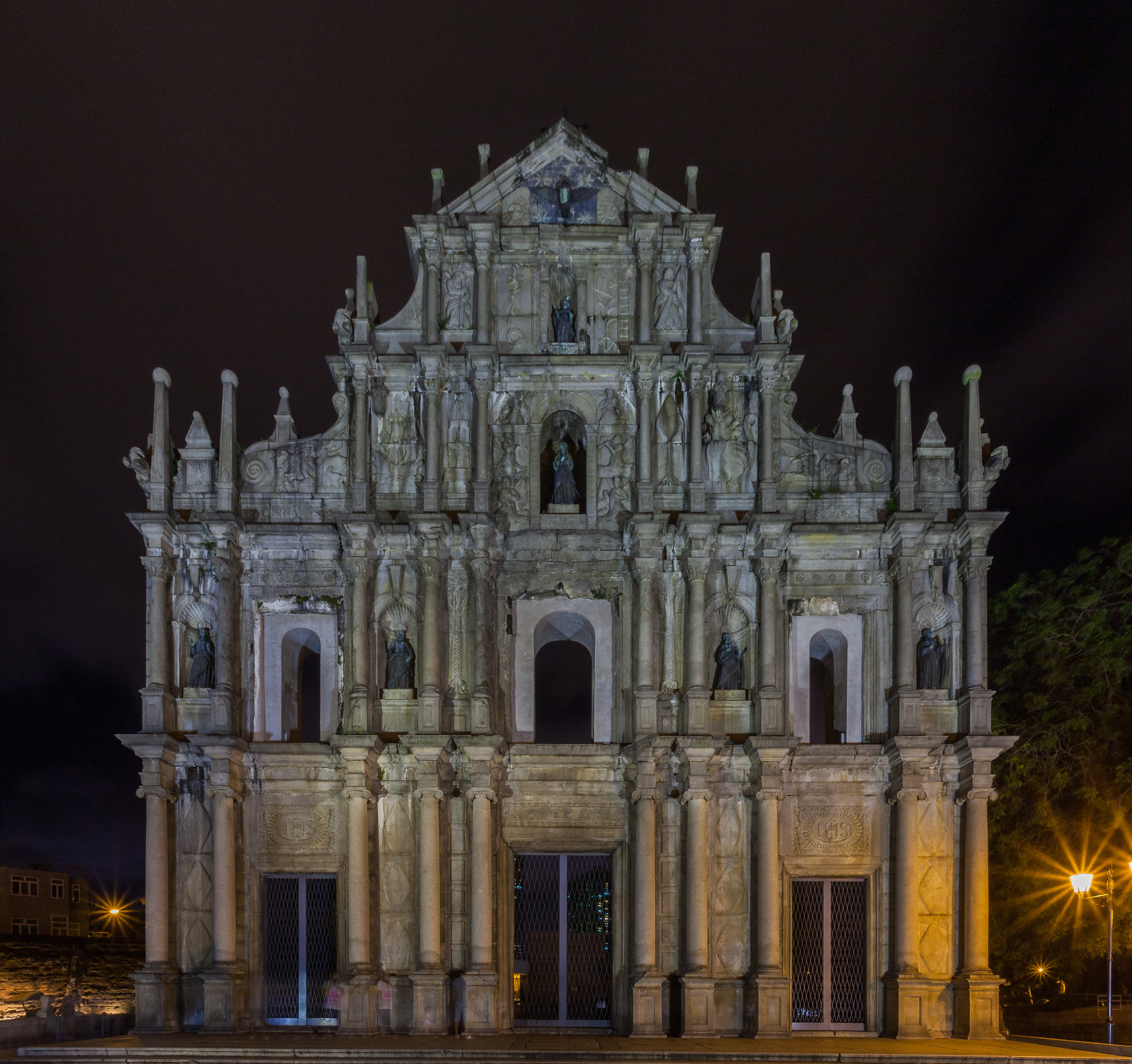 Remains of the Cathedral of Saint Paul, Macau